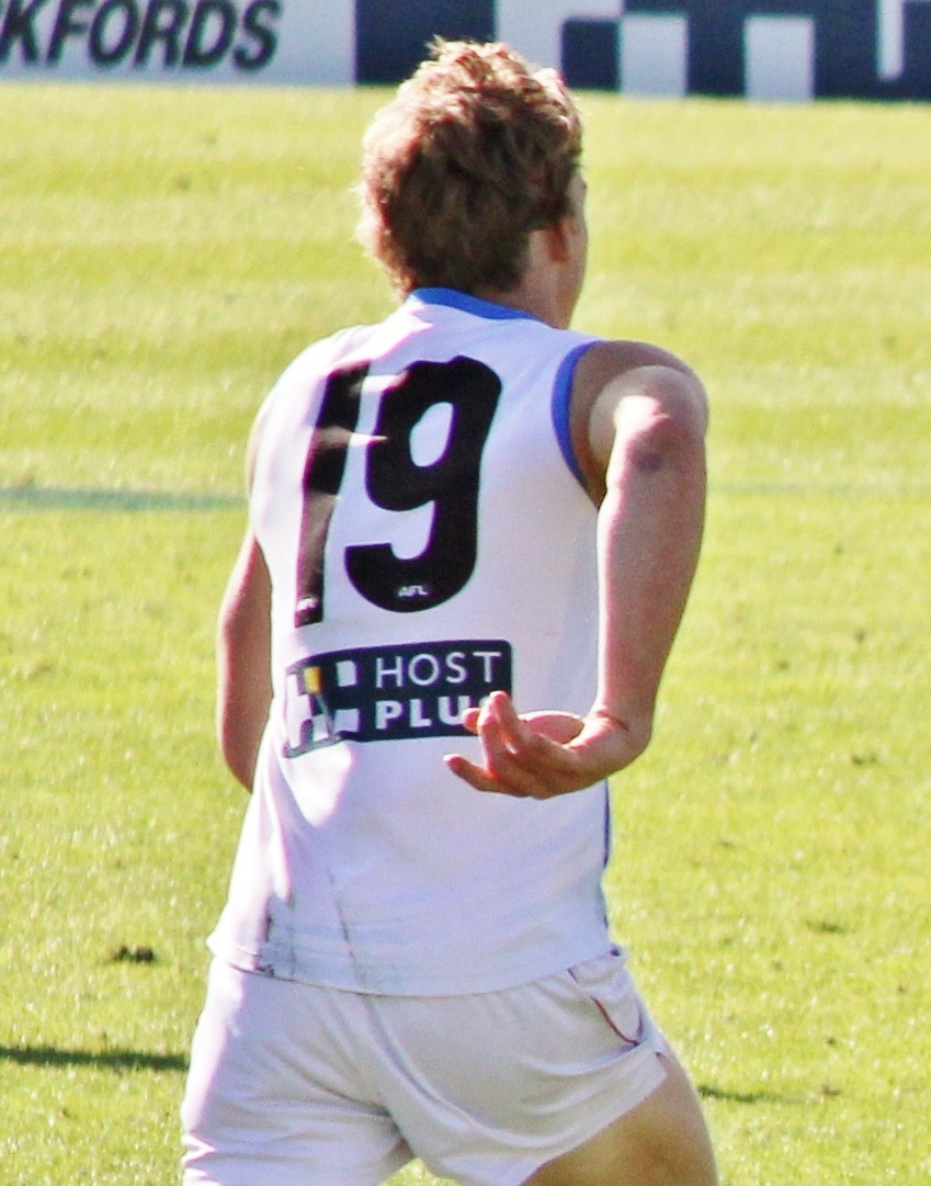 2012 Round 7. GWS Giants vs Gold Coast Suns. Manuka Oval.